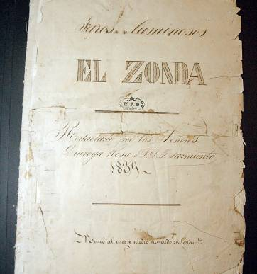 Facsimile of El Zonda, a newspaper edited by Domingo Sarmiento.